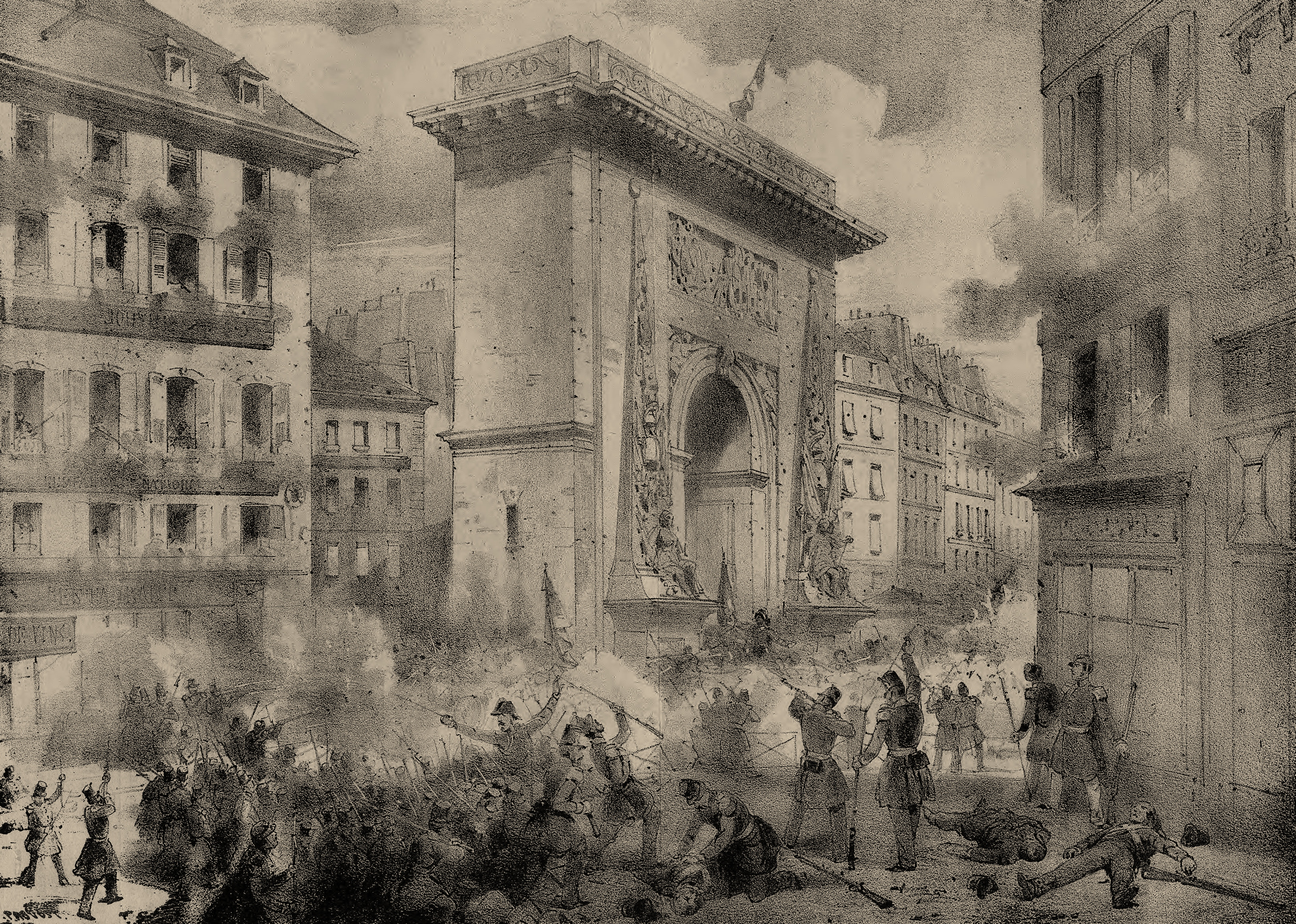 A street fighting scene at the barricade of the porte St.Denis.